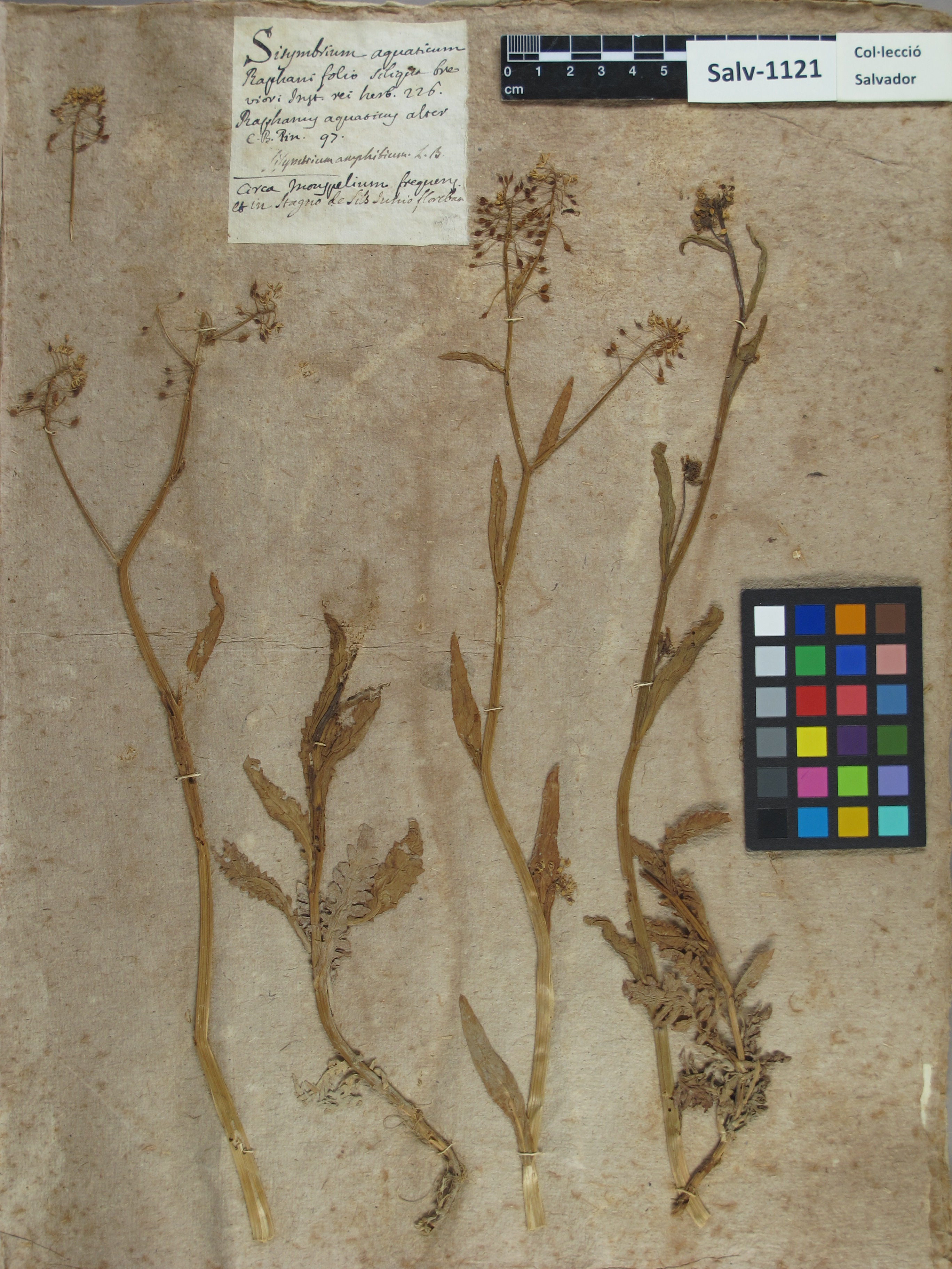 Imatge d'inventari- Herbari